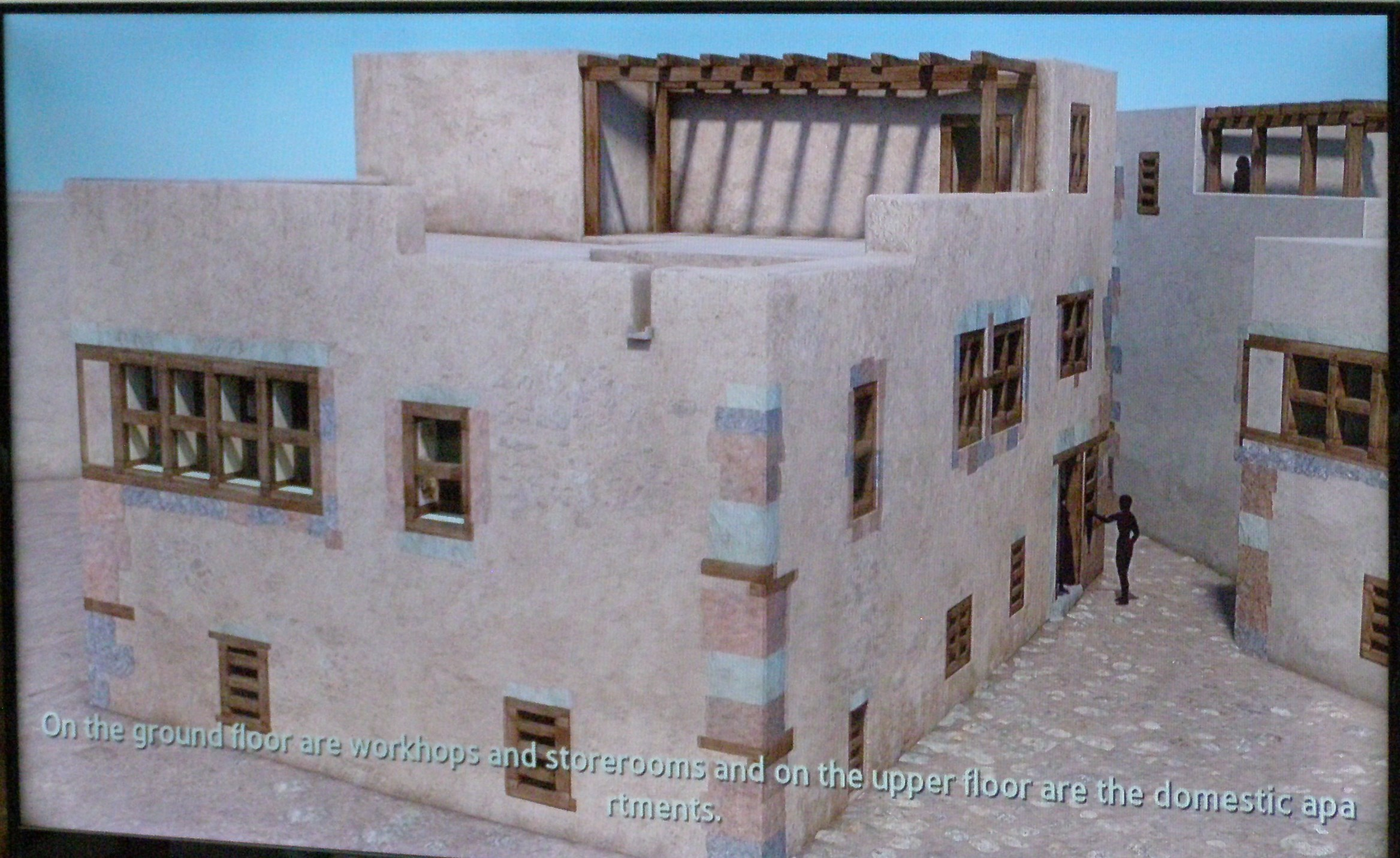 Takto mohl vypadat.